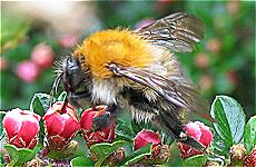 A bumblebee sucking nectar from a cotoneaster flower